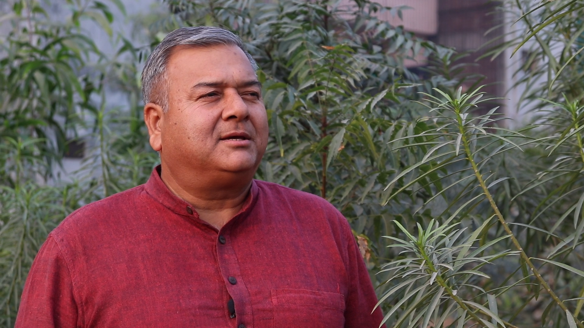 Peepal Baba in 2019